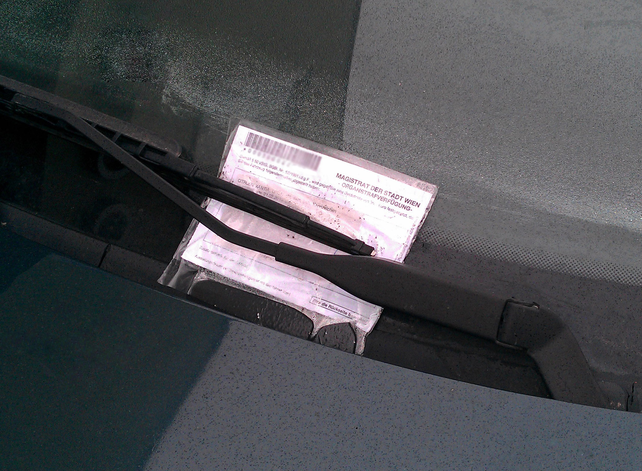 Parking ticket on a vehicle in Vienna, Austria